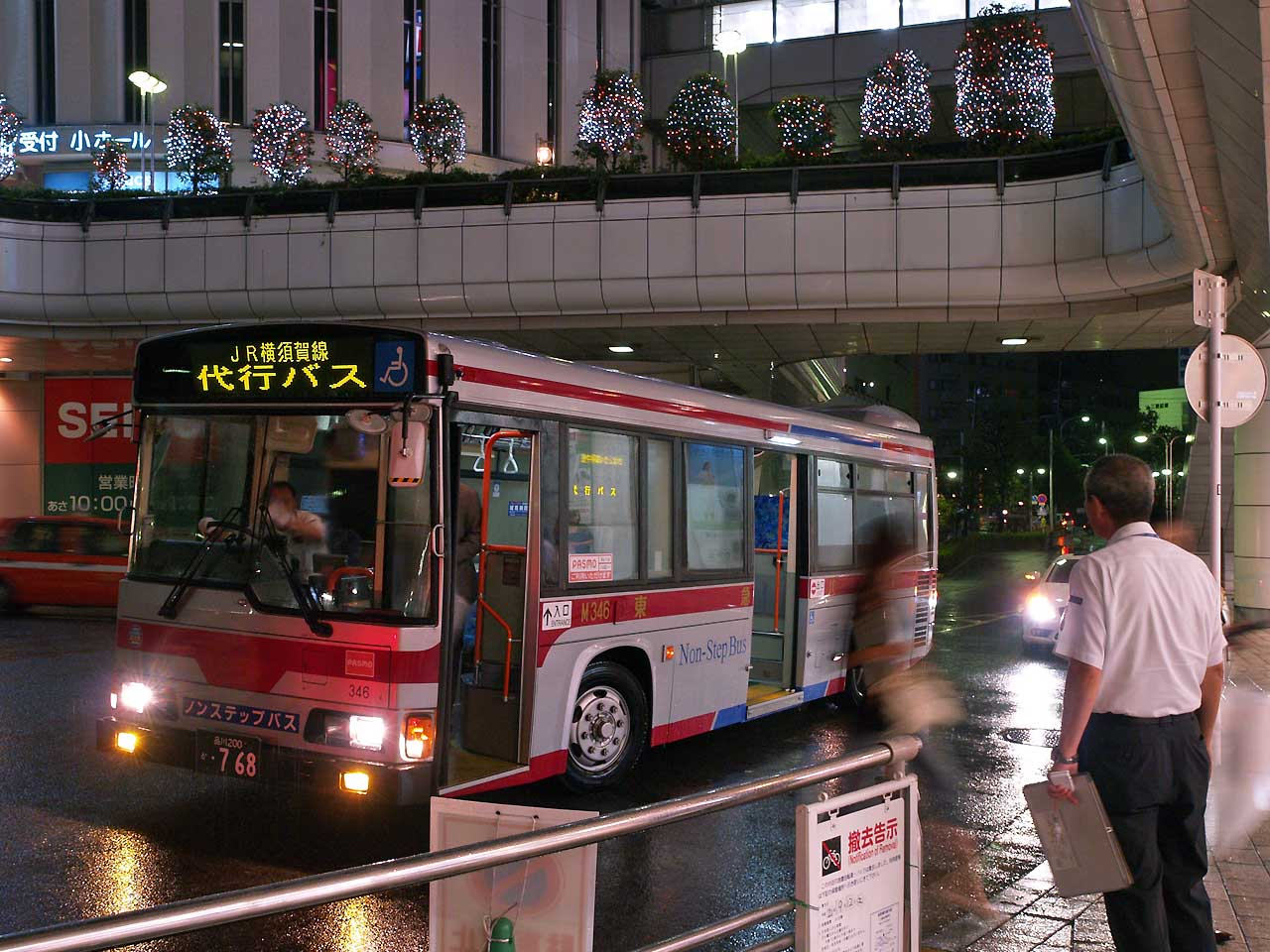 Tokyu Bus operated as bustitution shuttle between Nishi-Ooi Station and Ooimachi Station for JR Yokosuka Line construction. Model: Hino Rainbow KL-HR1JKEE License plate: TKS200KA-768 Place: Ooimachi Station east: Shinagawa Ward, Tokyo Japan